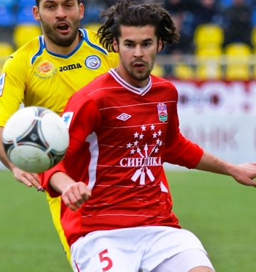 Adnan Zahirović as a player of FC Spartak-Nalchik in 2012 year